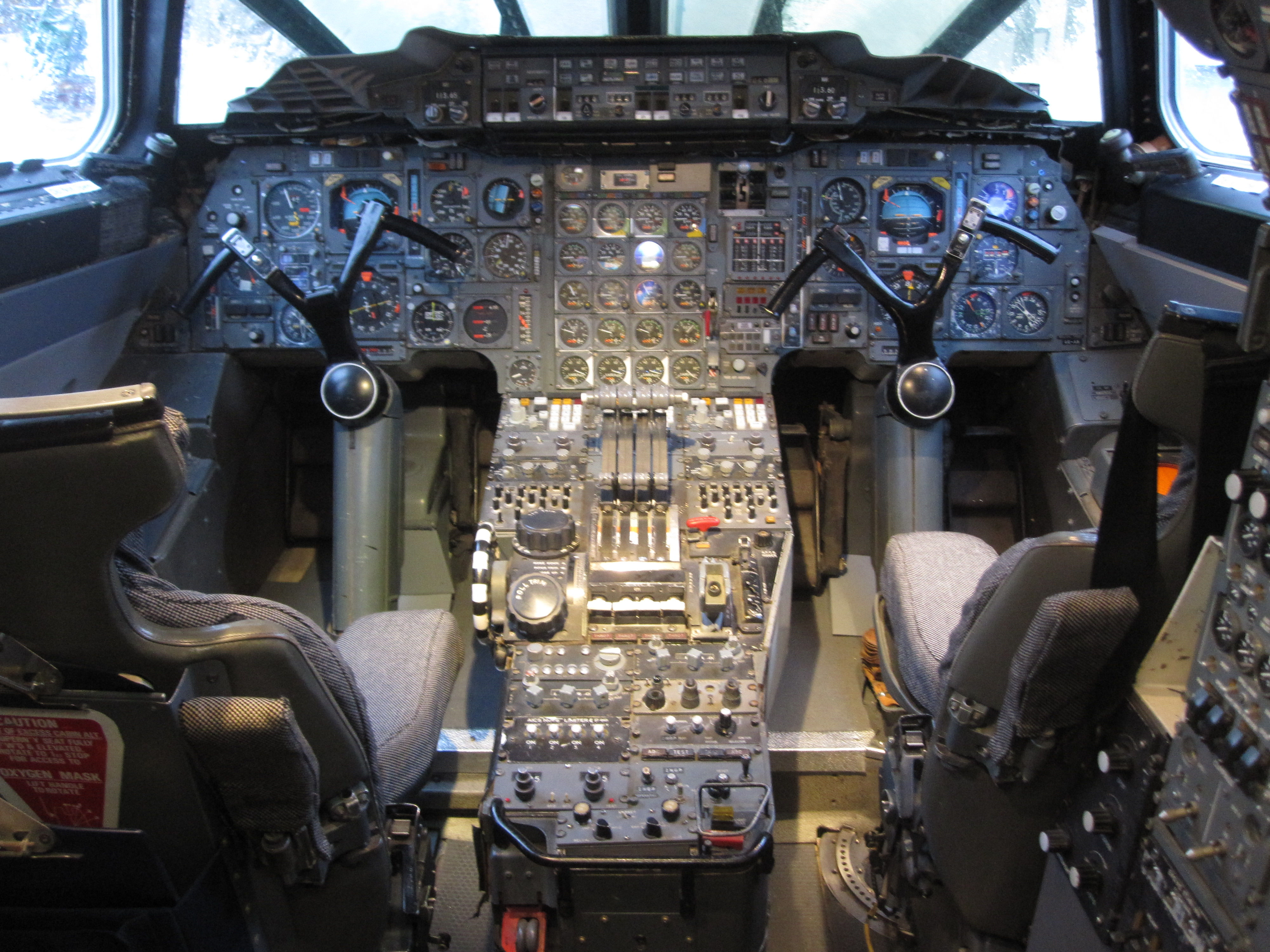 Flight deck of Concorde G-BBDG at Brooklands museum